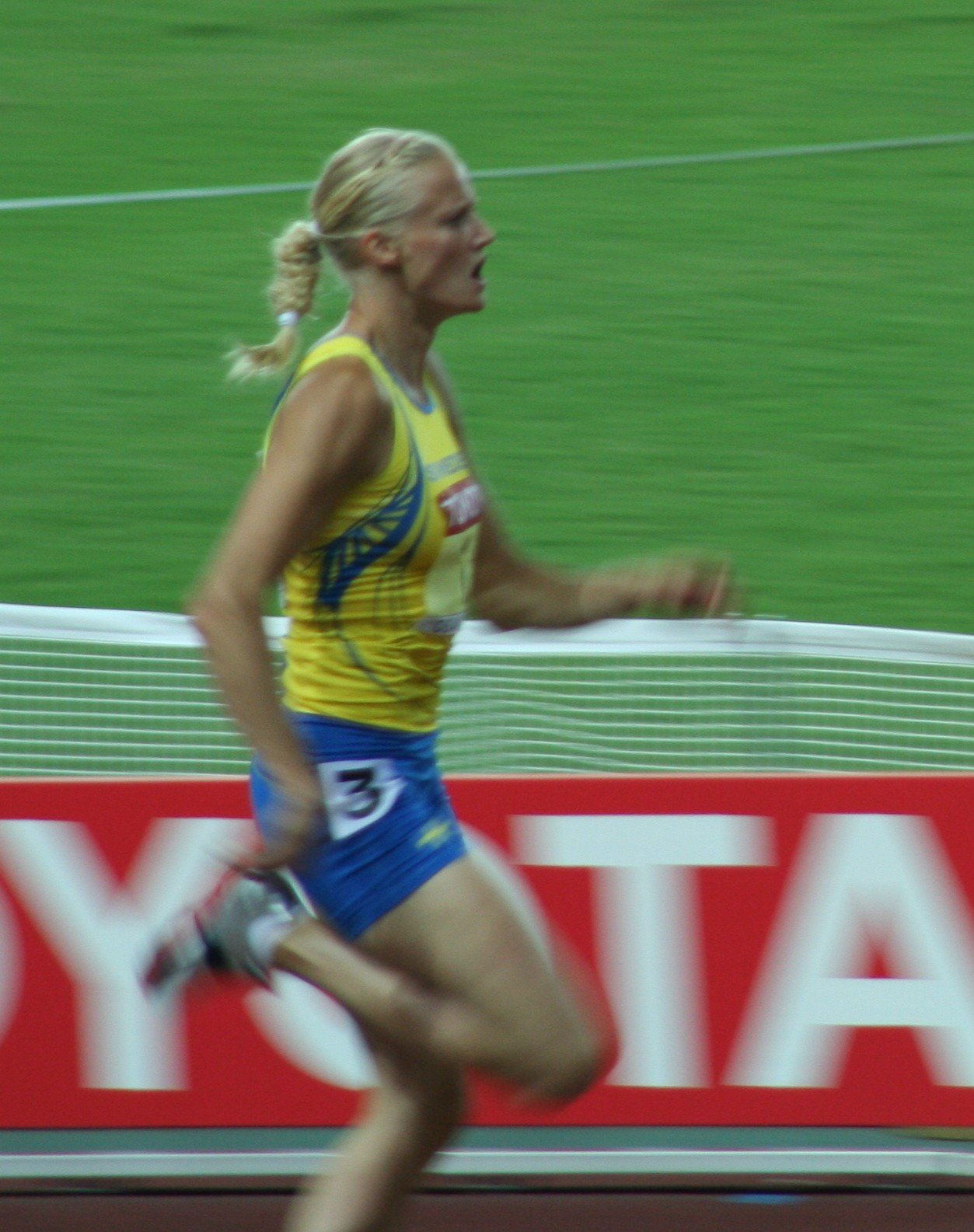 World Athletics Championships 2007 in Osaka - Swedish Heptathlon Athlete Carolina Kluft